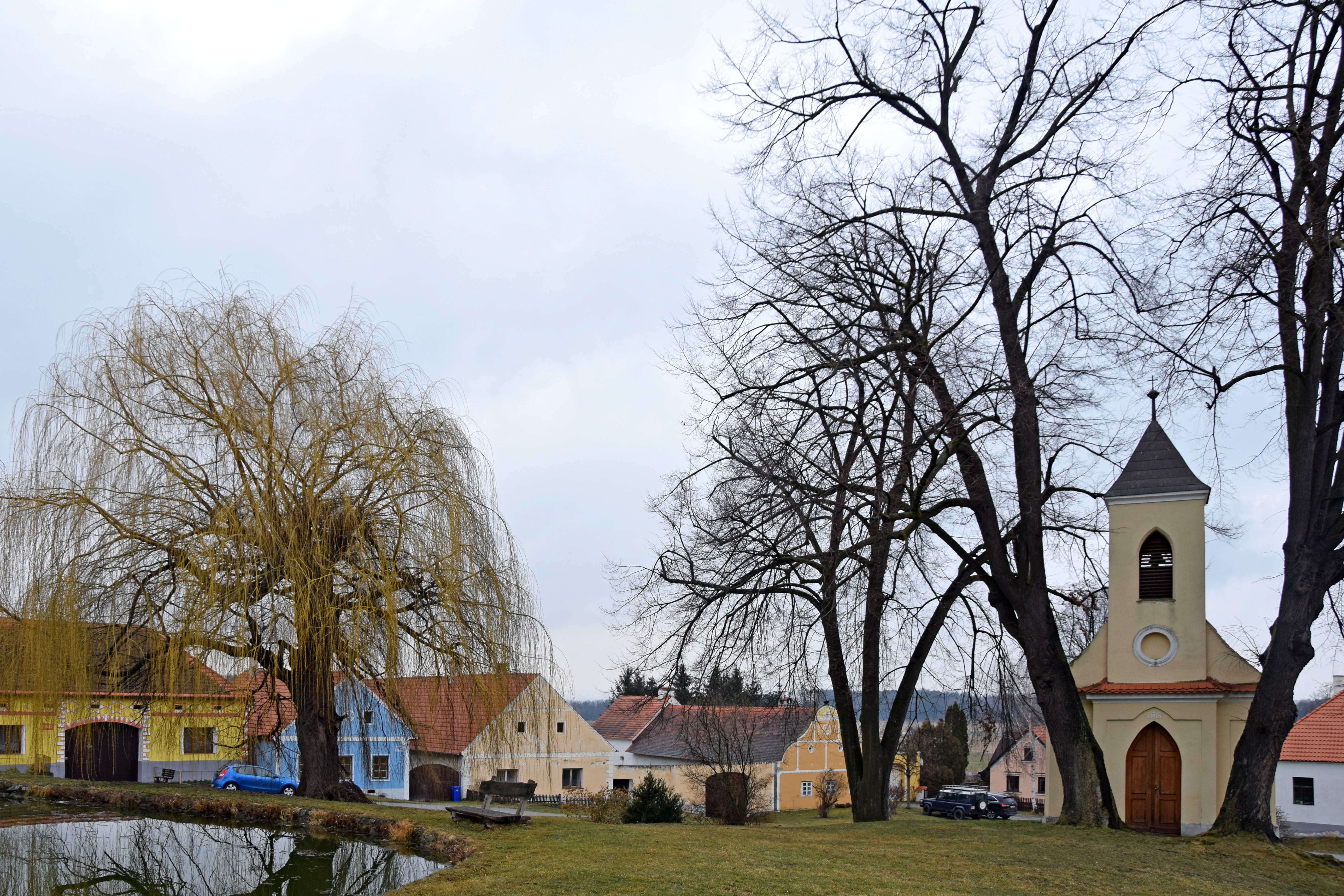 The Holy Trinity Chapel at the village square in Dobčice, České Budějovice District, the Czech Republic.